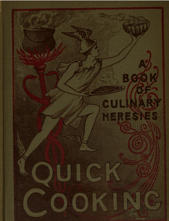 Quick Cooking: A Book of Culinary Heresies for the Busy Wives and Mothers of ... (1887), By Flora Haines Loughead